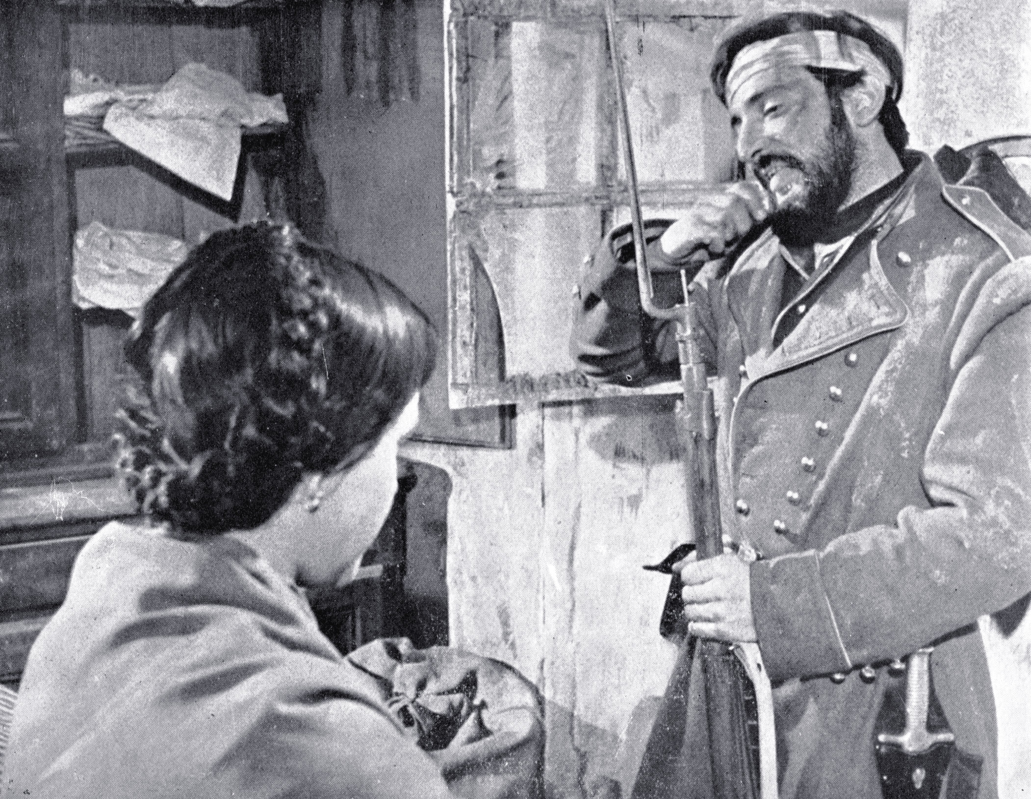 la pattuglia sperduta (Nelli 1954) - foto di scena